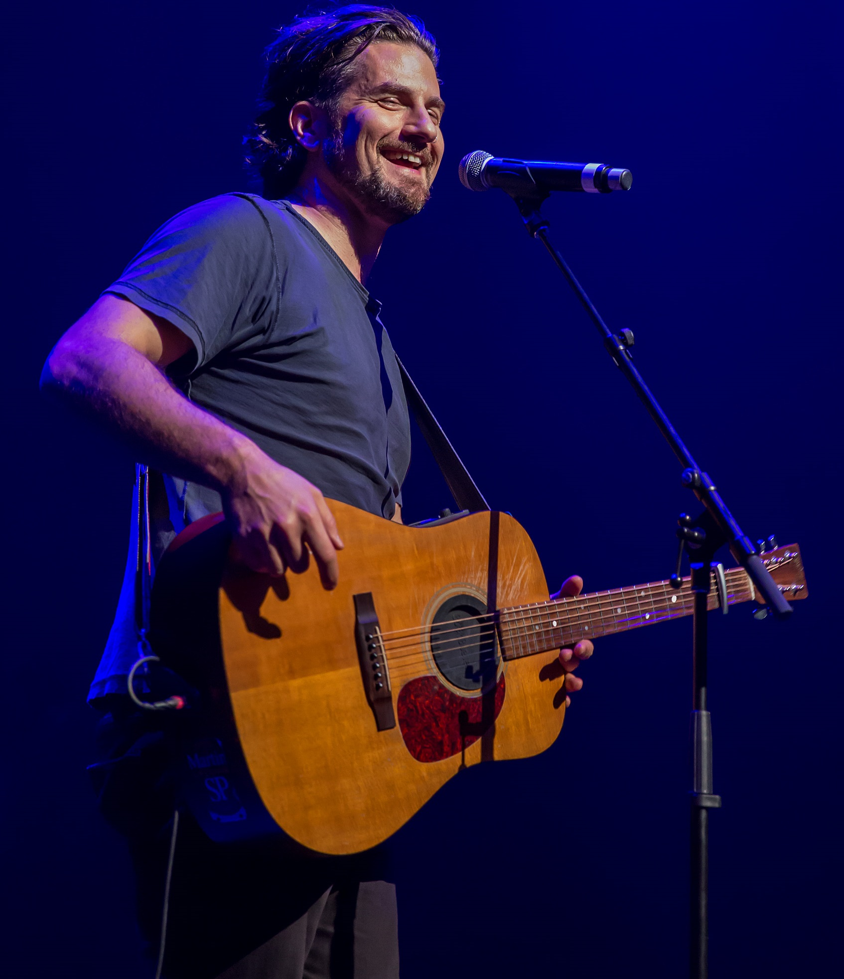 Matt Nathanson performing at ACL Live in Austin, Texas, 2014